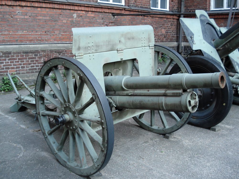 Russian 76.2 mm gun Model 1902, displayed in Helsinki Military Museum (Sotamuseo). Stamp on the barrel indicates this gun was manufactured in 1907. Photo taken on July 4, 2006. Source: Photo by me, User:Balcer.